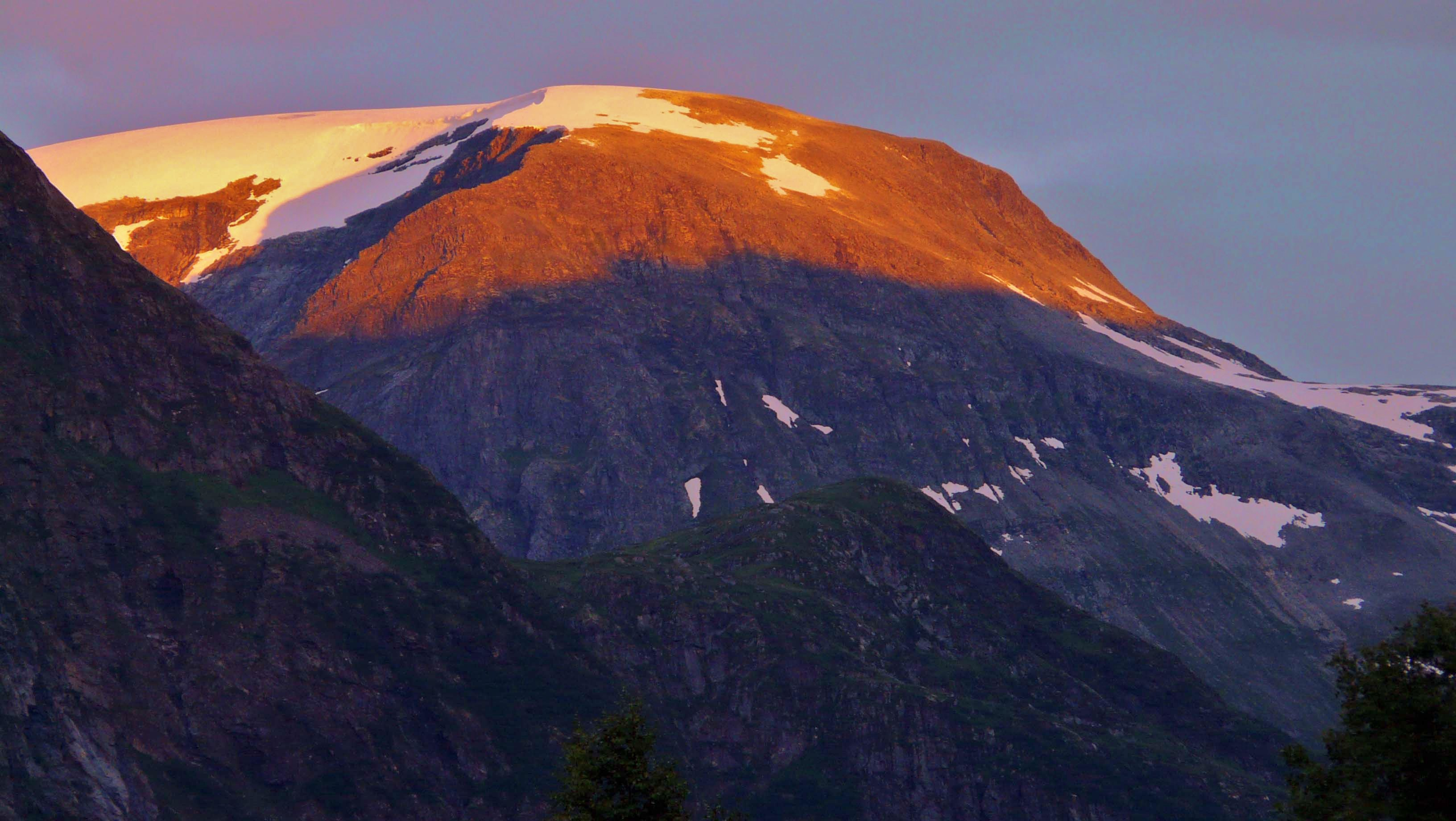 Sætertverrfjellet (1,688 m) near Geiranger as seen from the north at Solvang in evening 2008 August.